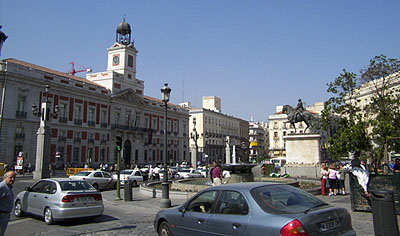 Puerta del Sol, Madrid, July 2002. Personal snapshot by Montréalais.